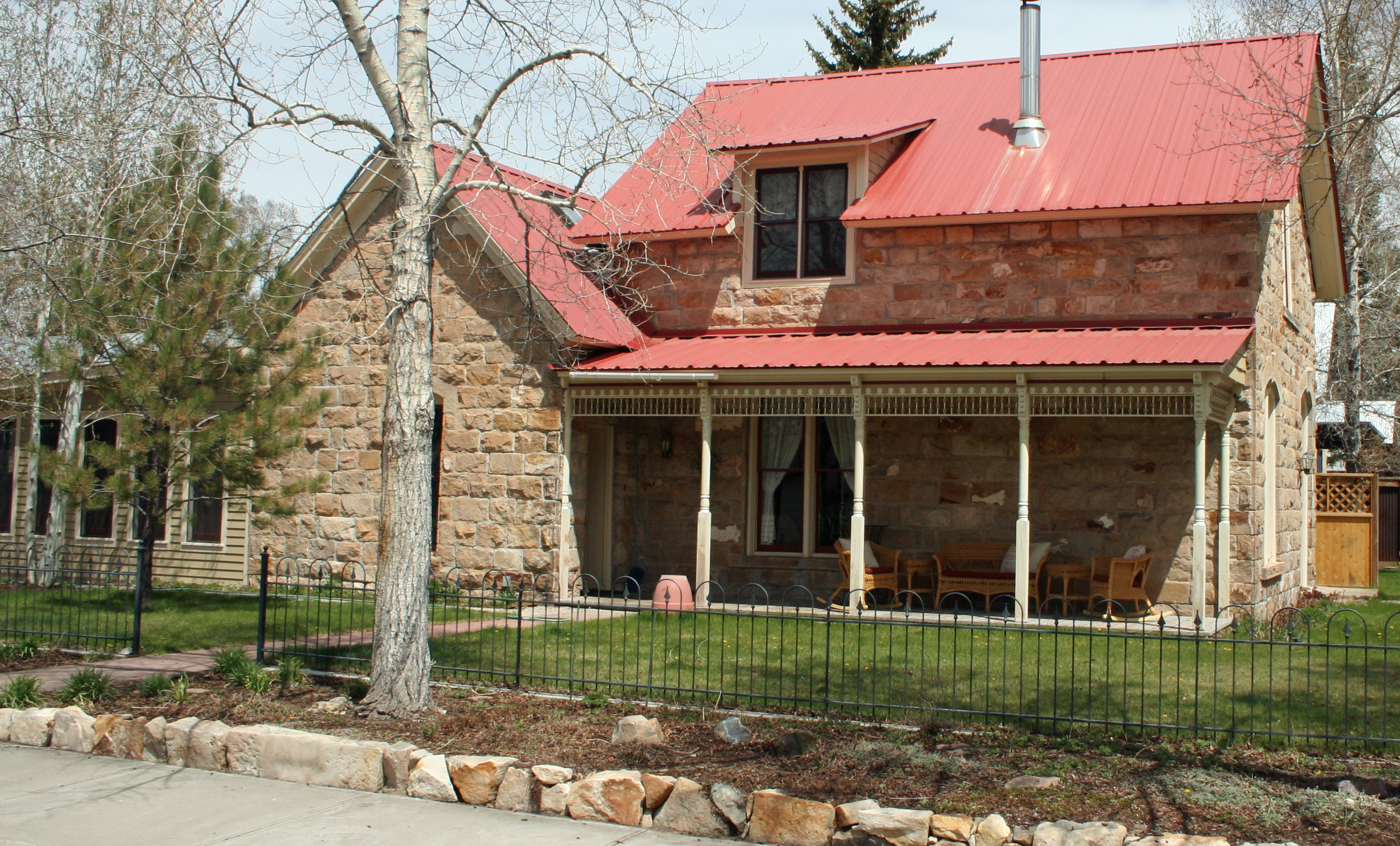 The Fisher-Zugelder House and Smith Cottage, located at 601 North Wisconsin Street in Gunnison, Colorado.